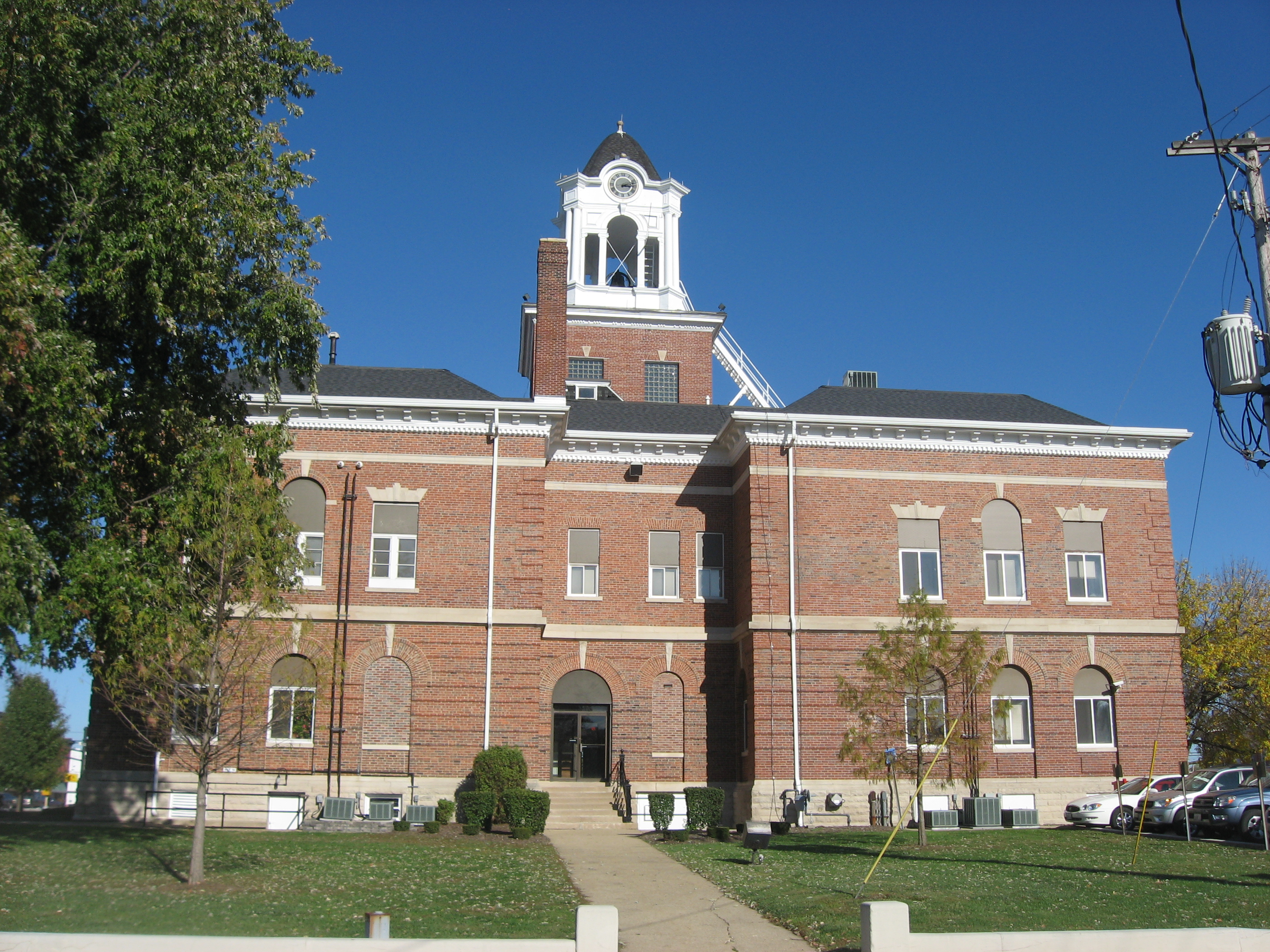 Western side of the Clark County Courthouse, located on Courthouse Square in Marshall, Illinois, United States. It is part of the Marshall Business Historic District, a historic district that is listed on the National Register of Historic Places.